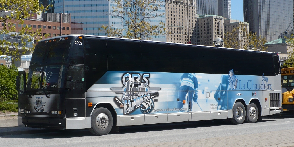 Autocar La Chaudier bus number 2002, painted for the CRS_Express hockey team